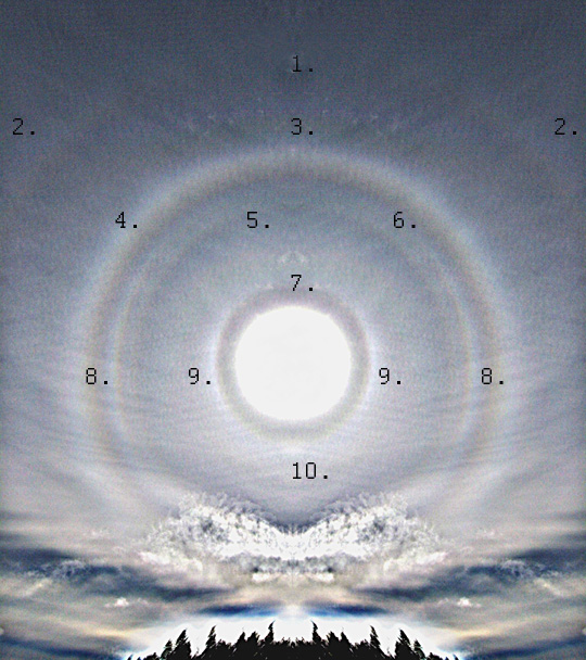 Rare odd radius circular halos produced by pyramidal ice crystals during a halo display in Kunčice, Czech Republic, on August 14, 2006. Visible from top to center: (translation?) faint 35° halo; possible very faint parhelion associated with the 23° halo; indistinguishable 24°, 23° and classic 22° halos; 18° halo; 20° halo; 9° halo; local unexplained brightening of the 20° halo (translation?); local unexplained brightening of the 9° halo (translation?); faint local brightening of the 9° halo possibly indicative of its associated parhelion (translation?). The photograph has been mirrored for unknown reasons. The contrast has been enhanced for better halo identification. A very similar photograph of the same display is visible here: [1]